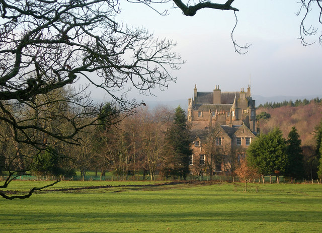 Cassillis House Located close to the River Doon, near Dalrymple, Cassillis House is the setting for the famous ballad "Johnnie Faa" - Before her marriage to the powerful chief of the Kennedys, the countess had loved a young knight, Sir John Fall. She eloped with him, disguised as the gypsy, "Johnnie Faa". The Earl brought them back and made her watch the gypsy band and her disguised lover being hanged from the Dule Tree in front of Cassillis House. The Earl imprisoned the Countess for life in his town house, Maybole Castle 241392. He then divorced her and remarried. No human rights in those days!